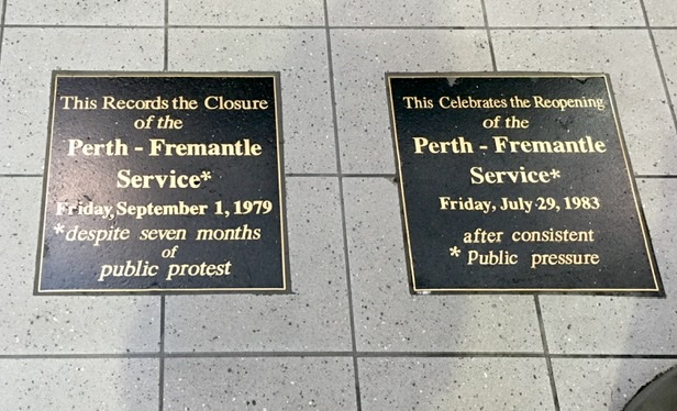 Photograph of two plaques on the floor of Perth station commemorating the closure and re-opening of the Fremantle railway line.